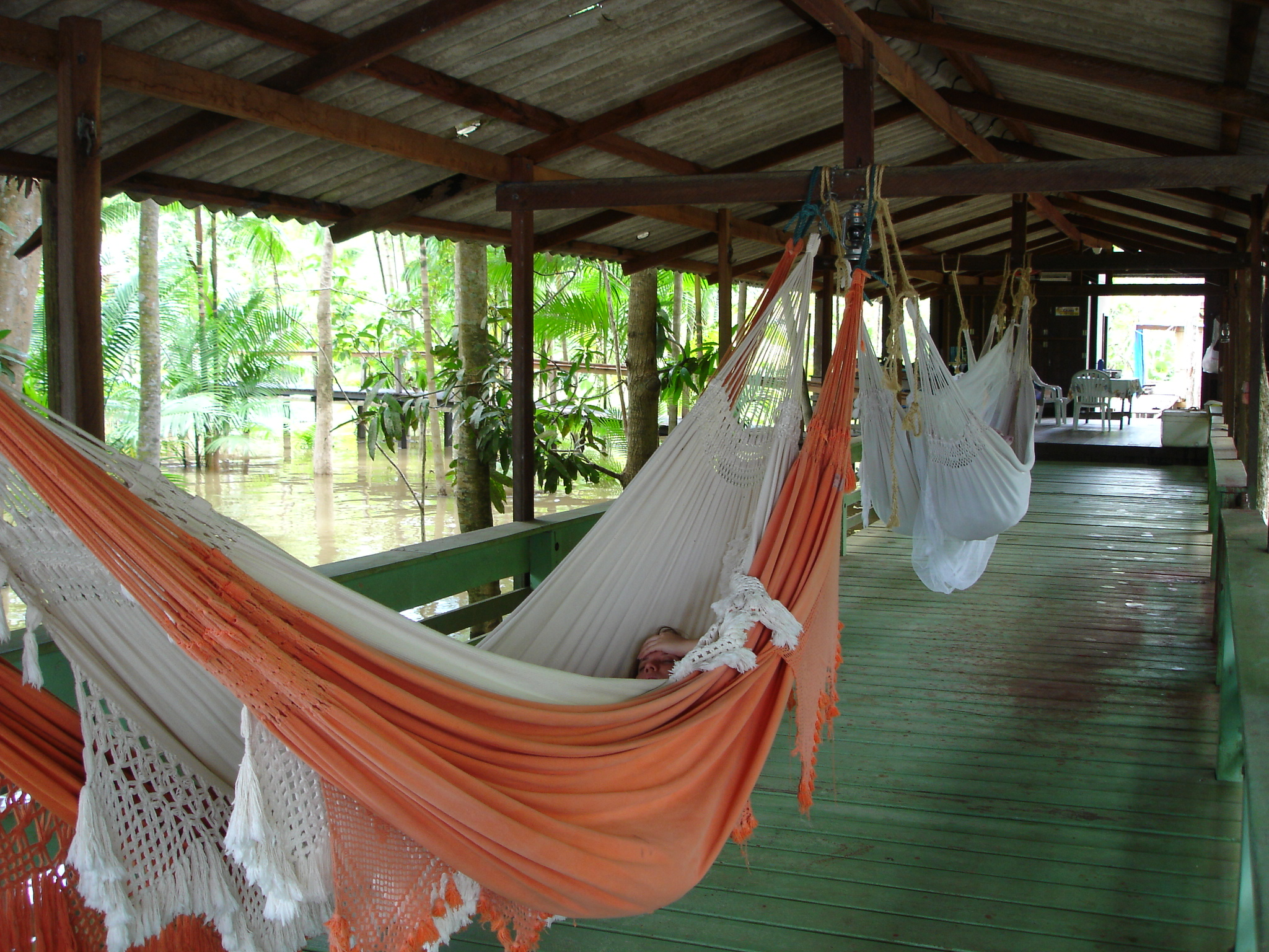 Photo of Hammocks, in a little island on the Amazon river.